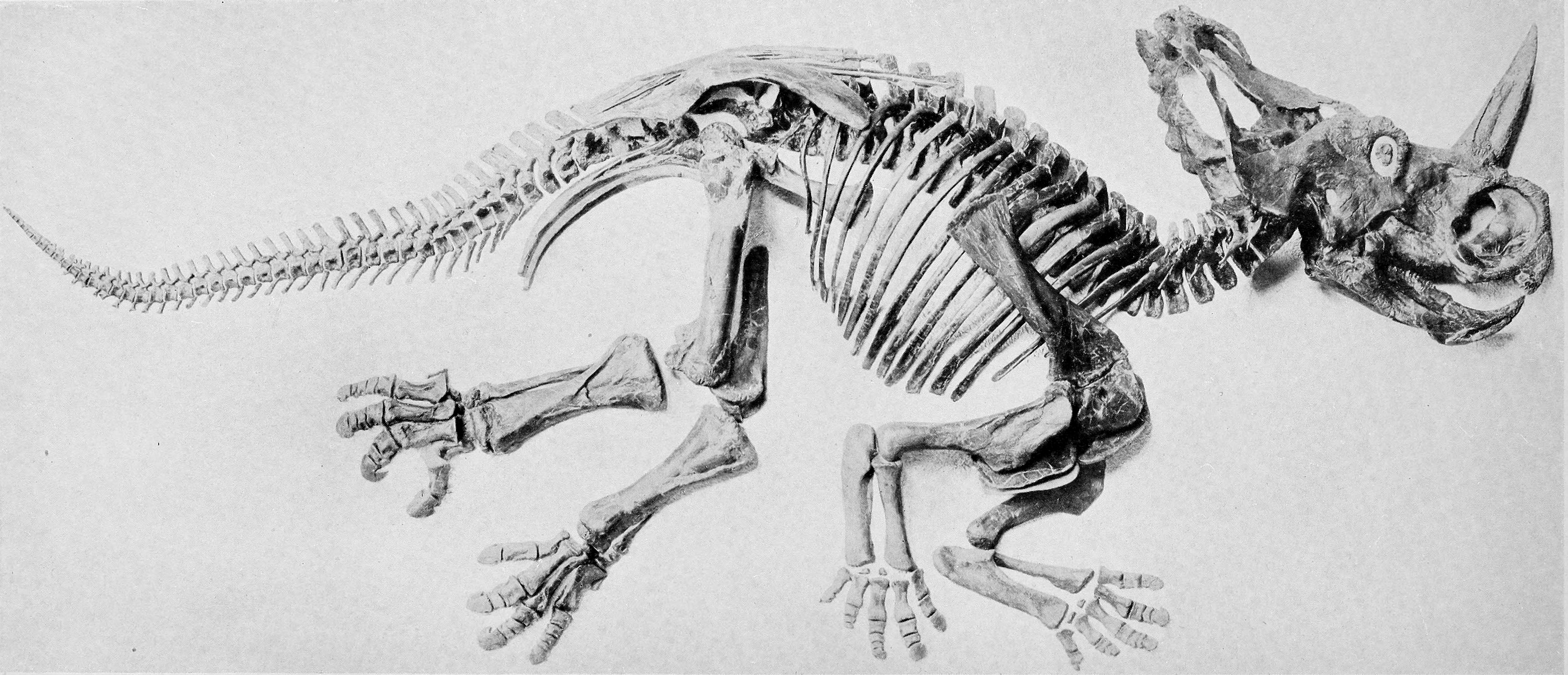 Title: Annual report of the American Museum of Natural History for the year Year: 1870 (1870s) Authors: American Museum of Natural History Subjects: American Museum of Natural History; Natural history museums Publisher: New York : [The Museum] Text Appearing Before Image: ' Text Appearing After Image: '